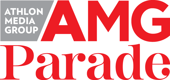 The names AMG and Parade are colored in bright red, and with the name Athalon Media Group in the top left corner.